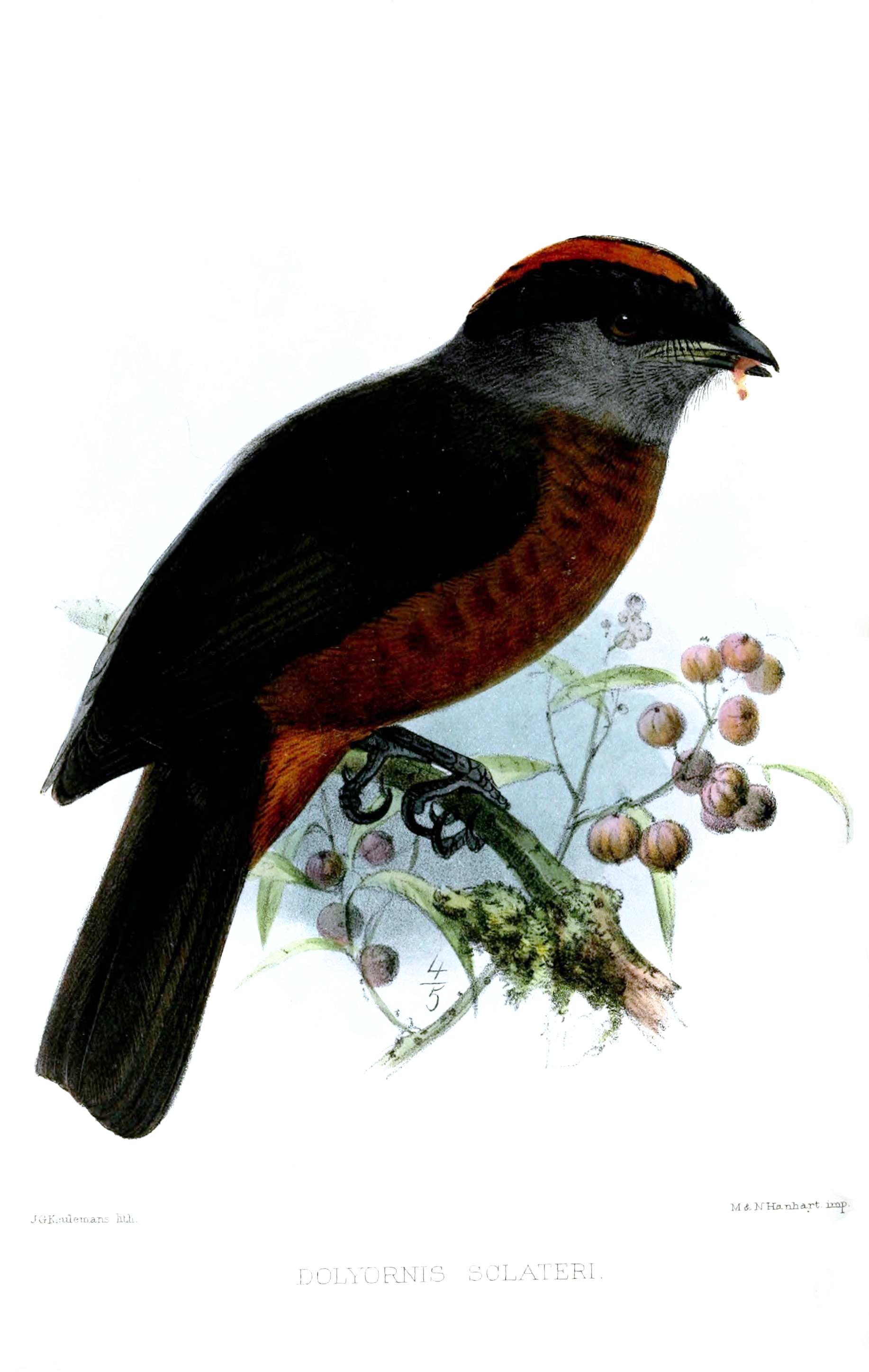 Dolyornis sclateri = Doliornis sclateri